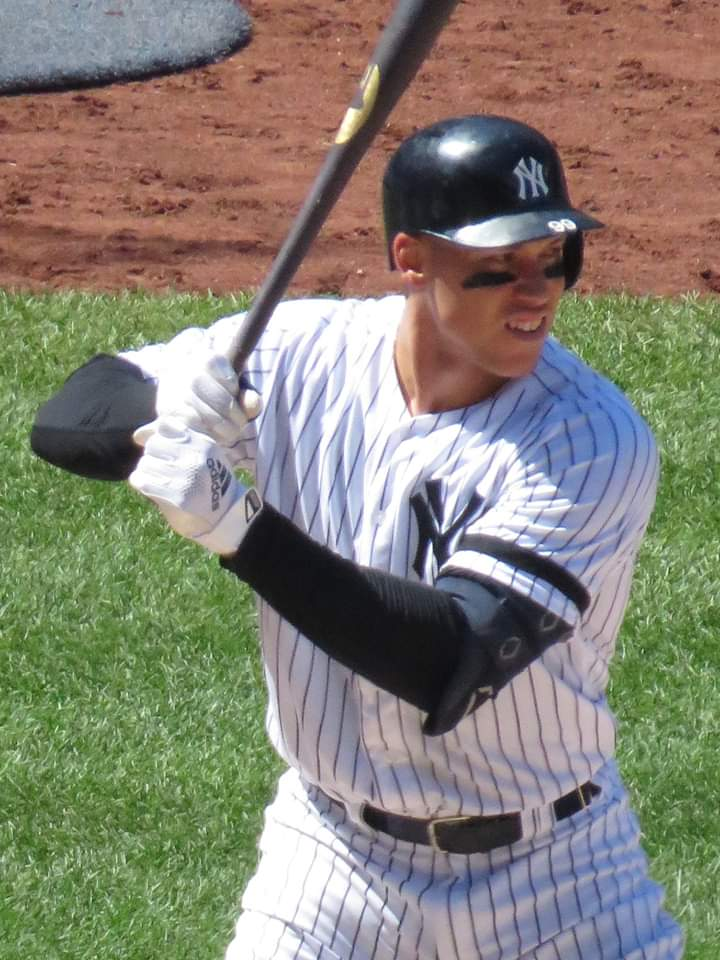 Aaron Judge in 2019